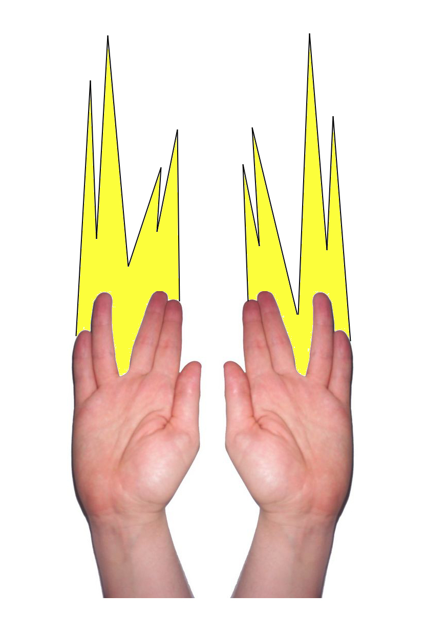 Priestly blesing.